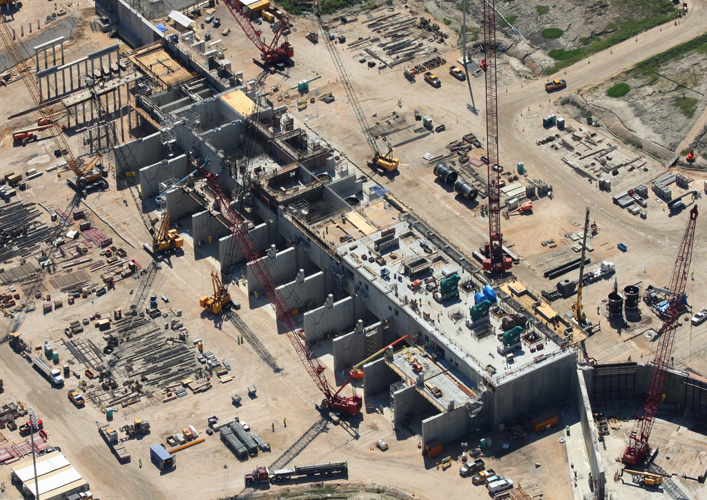 NEW ORLEANS, La. — Construction at the pump station that will house 11 pumps; each individually powered with a 5400 horse power diesel engine. (U.S. Army Corps of Engineers photo)